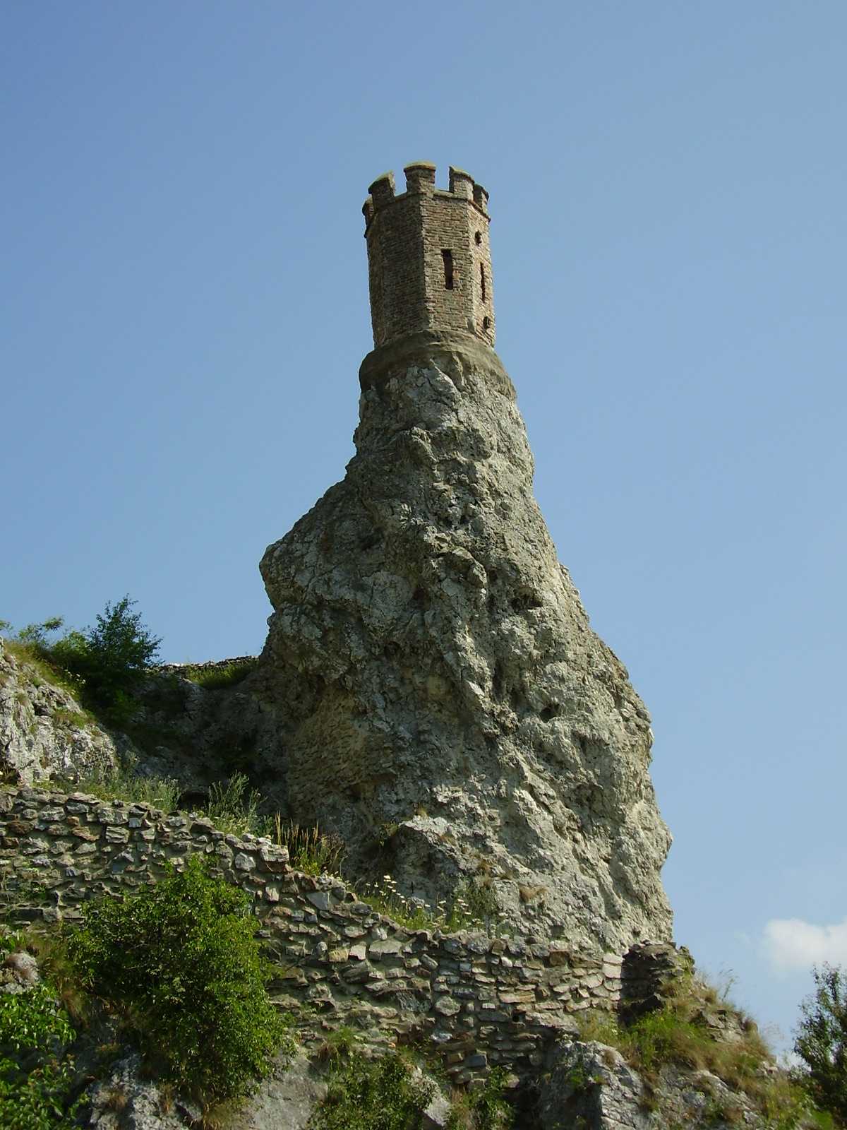 Slovakia, Devin castle, Panenská veža ("Virgin tower")